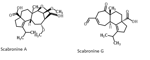 Scabronine A and G